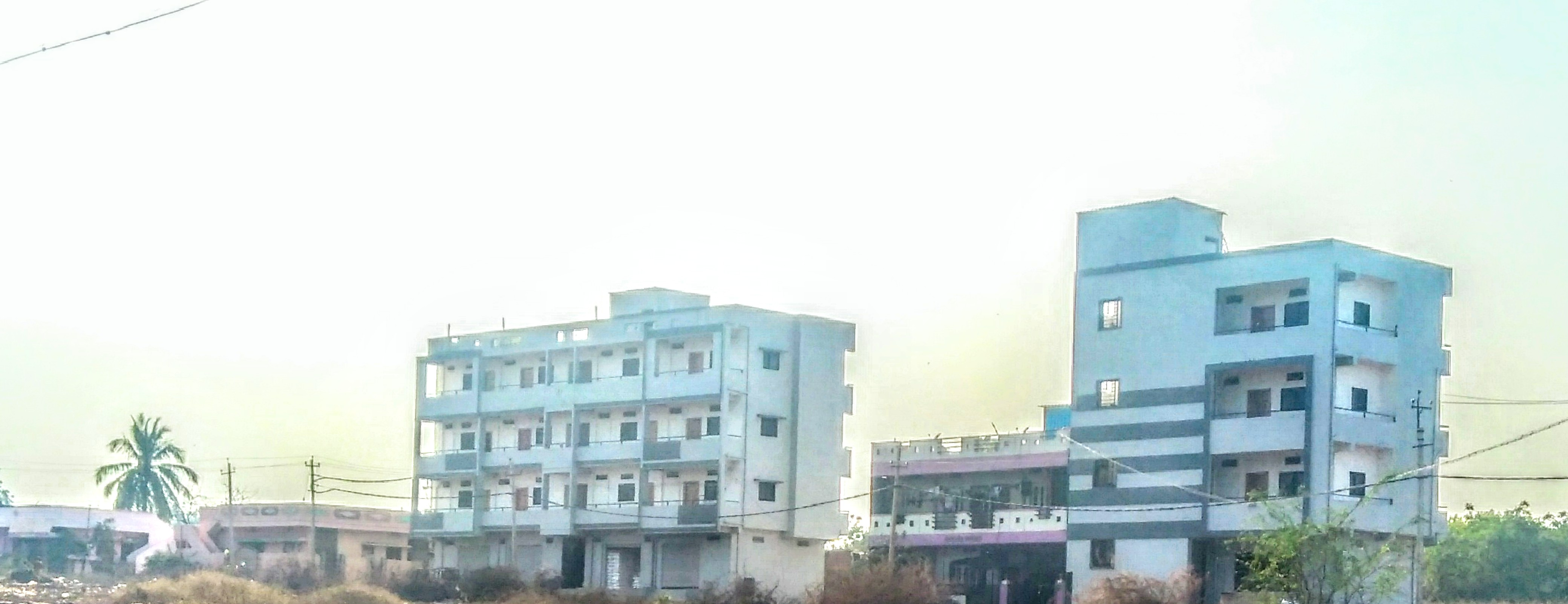 The are Building apartments in clean environment of Mannaekhelli.